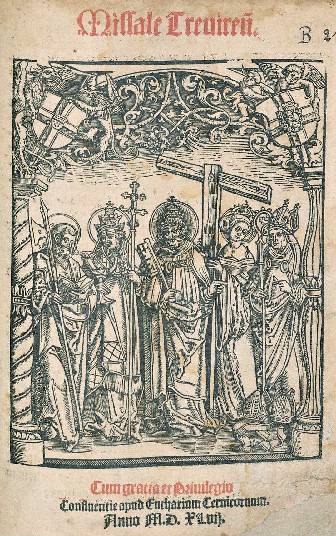 Titelblatt des Trierer Missale von 1547, mit Abbildung von Bischof Johann IV. Ludwig von Hagen (ganz rechts) und seinem Wappen (links oben)